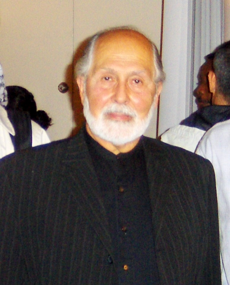 Hossein Nasr at the Massachusetts Institute of Technology on October 1, 2007.